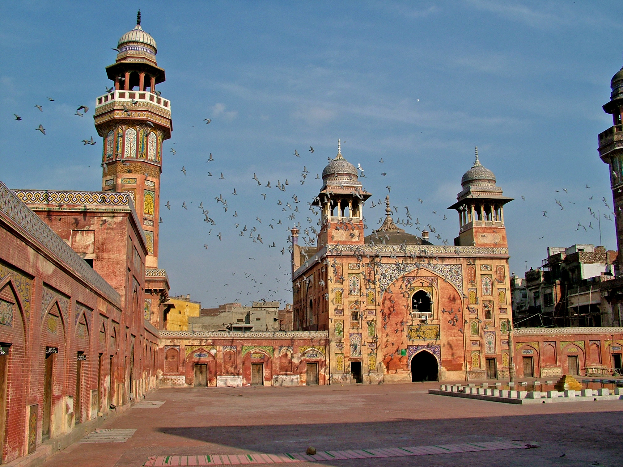 A view of Wazir Khan Mosque in Lahore. The mosque was build in 1634-1635 A.D and is located in the Inner City of Lahore.